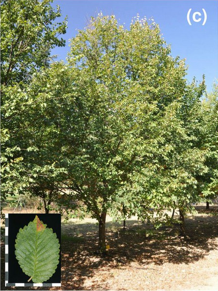 Ulmus minor 'Majadahonda'